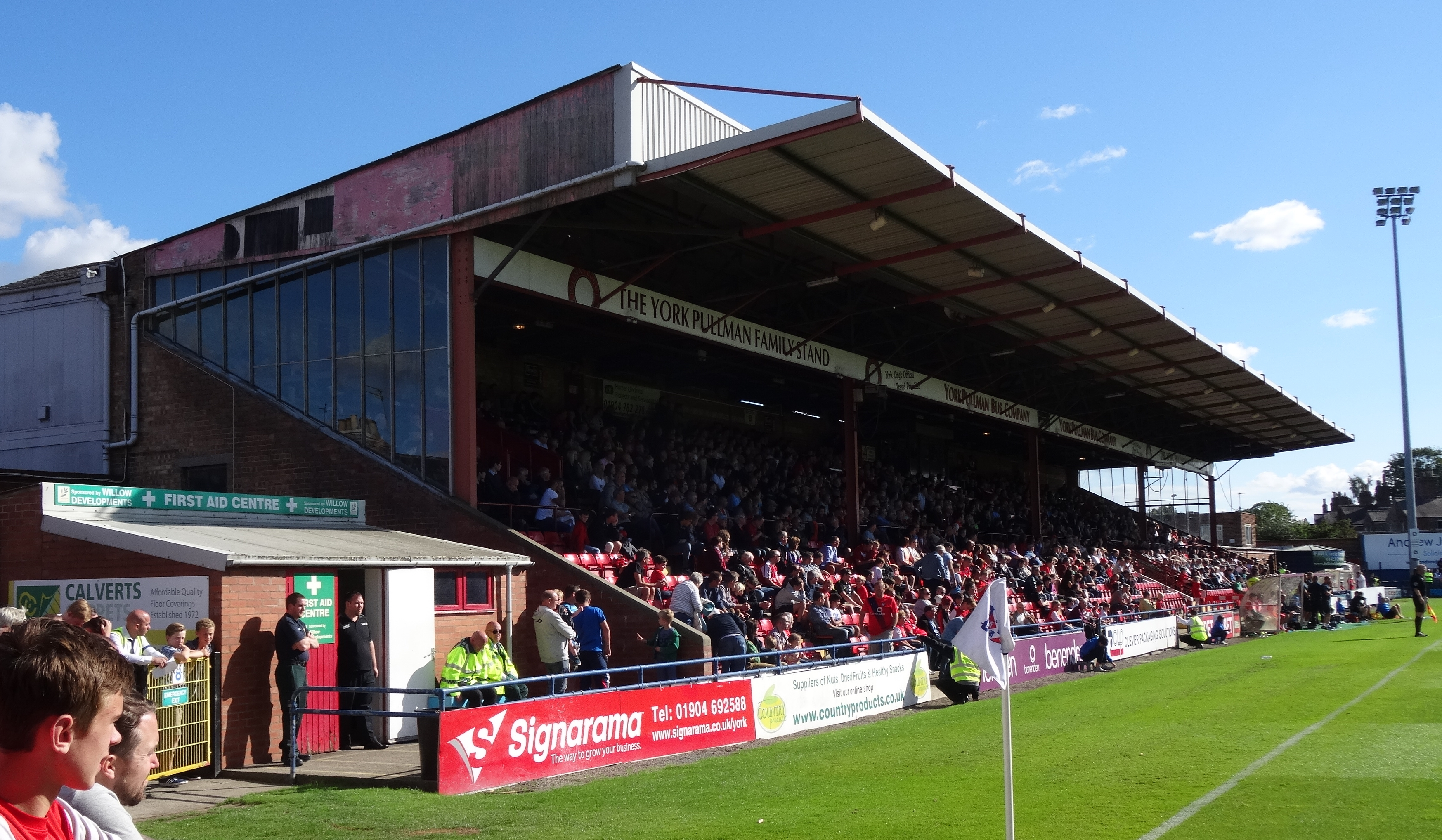 The Main Stand at Bootham Crescent, York, during a match between York City and Hartlepool United on 15 August 2015